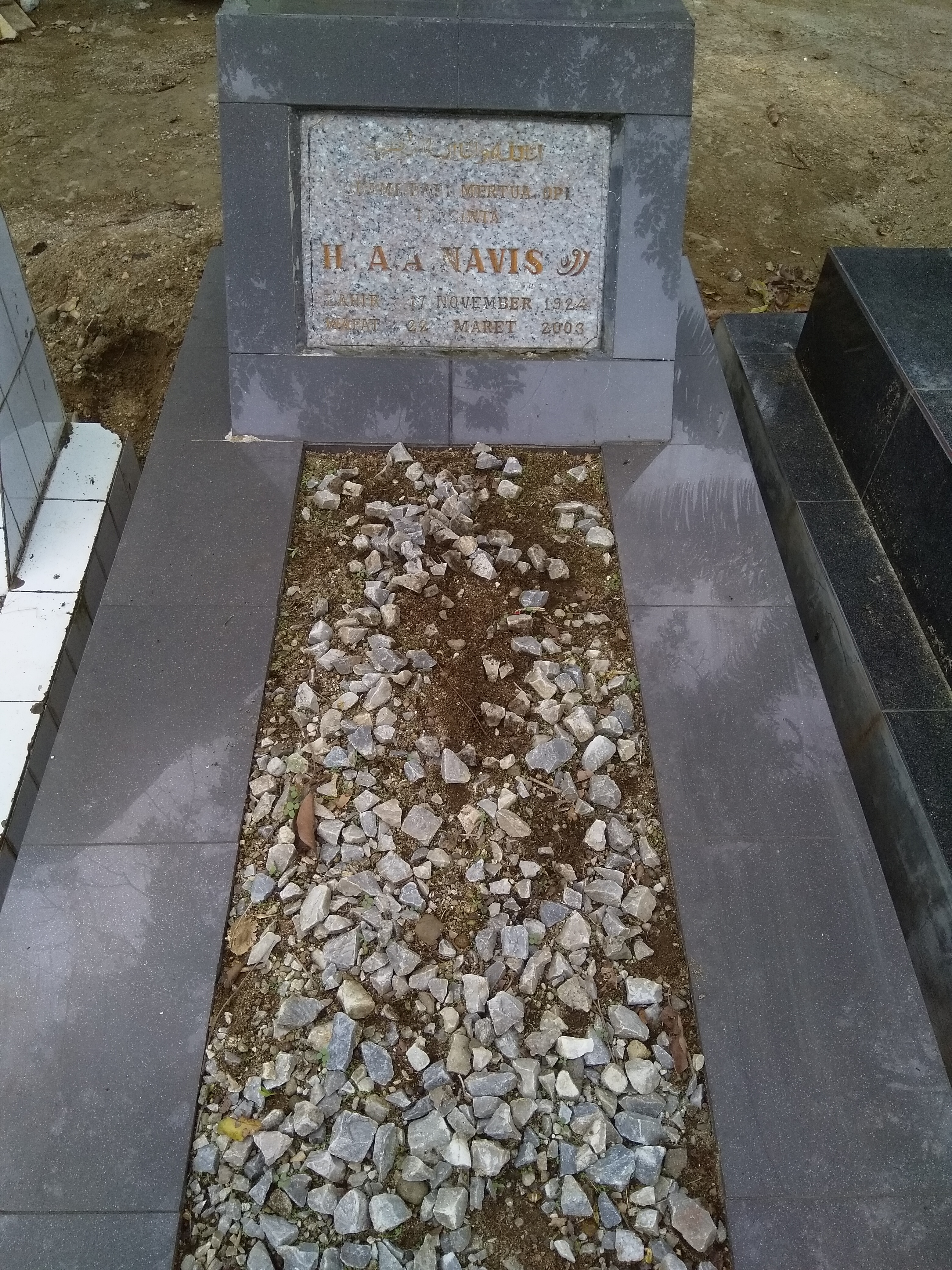 Located at Tanggul Hitam Cemetery (TPU Tanggul Hitam), Padang. A.A Navis passed away in 2003.